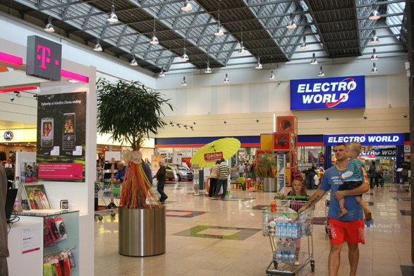 Nakupni centrum Gecko - interior